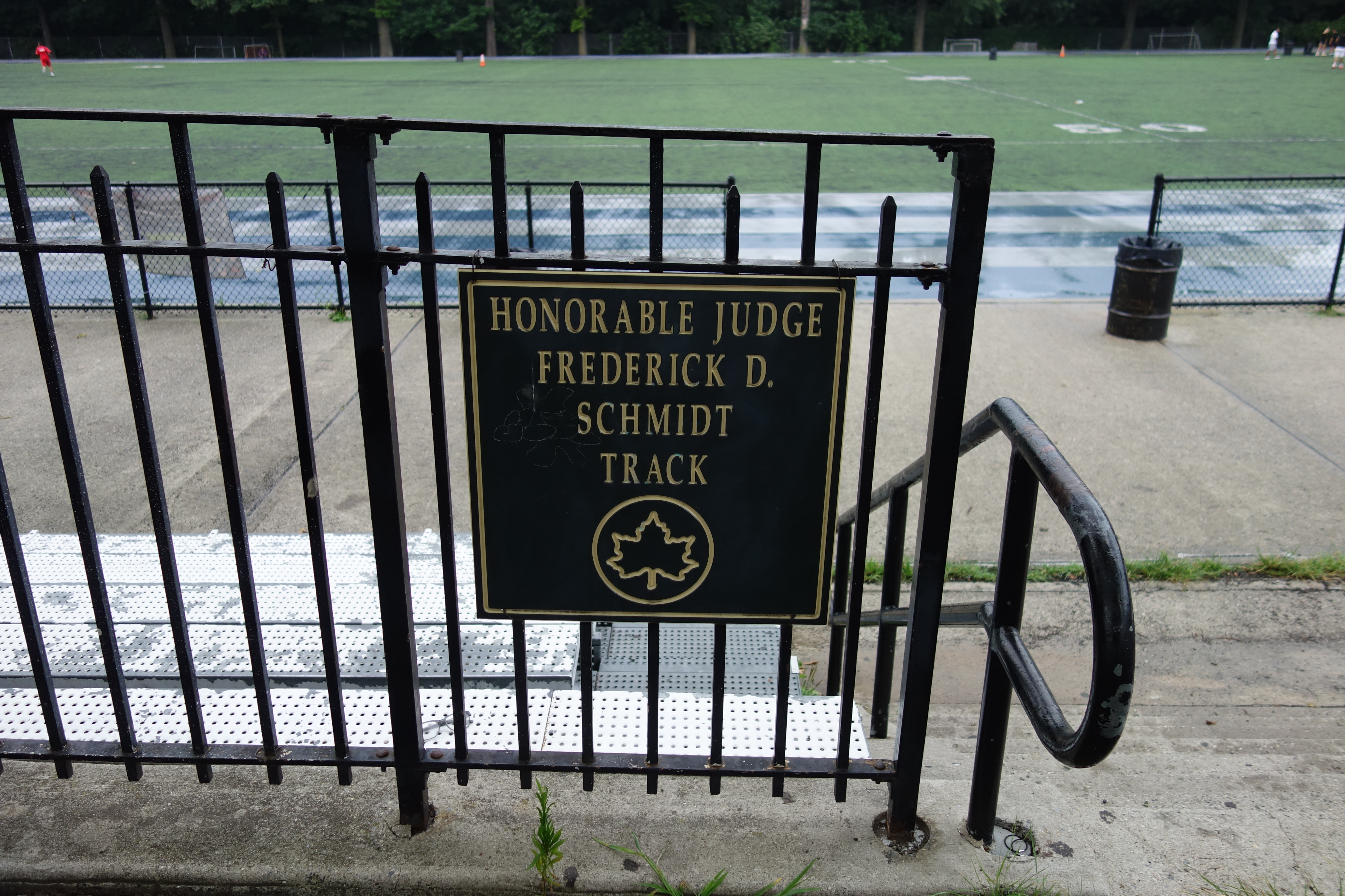 A classic Parks Department sign for the Track and Field at the east end of Victory Field within Forest Park, at Myrtle Avenue and Woodhaven Boulevard in Woodhaven, Queens. The track is named after Frederick D. Schmidt, a New York State Assemblyman and State Supreme Court Judge from Woodhaven who passed away in 2003. The track was renamed after Schmidt following the 2007 renovations to the park.